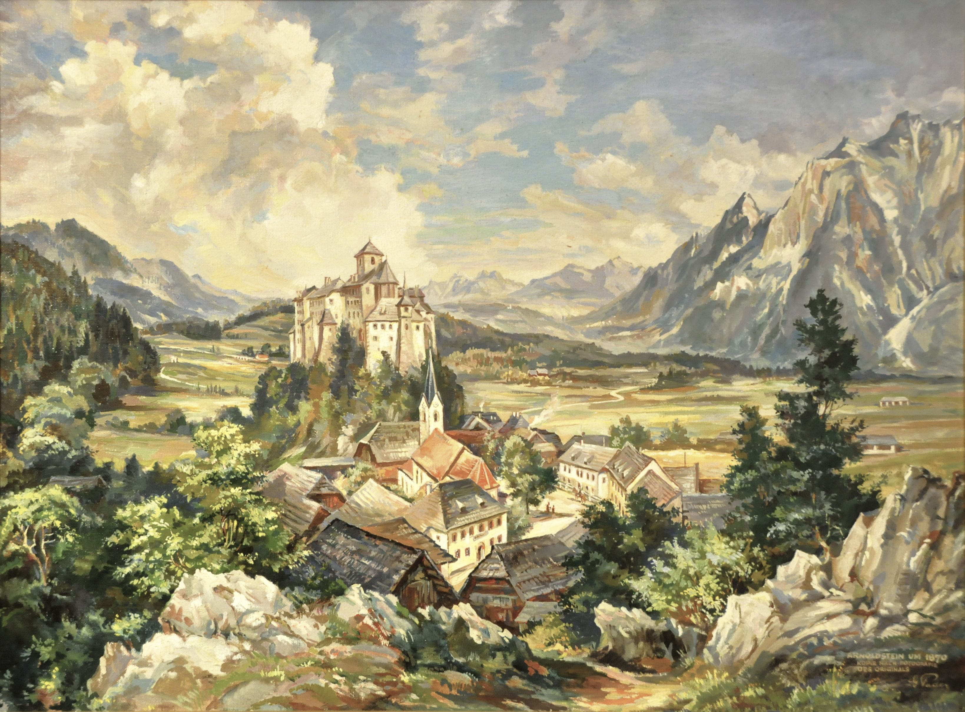 Monastery (around 1870) in Arnoldstein, municipality Arnoldstein, district Villach Land, Carinthia / Austria / EU